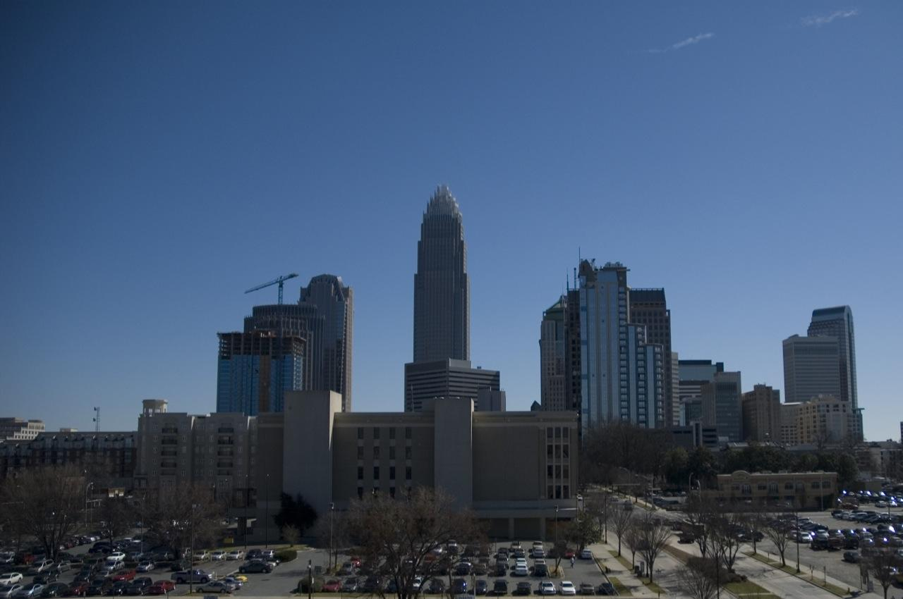 Skyline of Charlotte, North Carolina